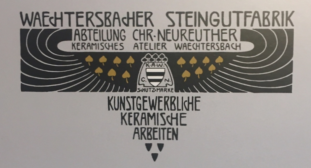 Art pottery in the Waechtersbach Ceramics have been designed in the Ceramic Atelier of Christian Neureuther